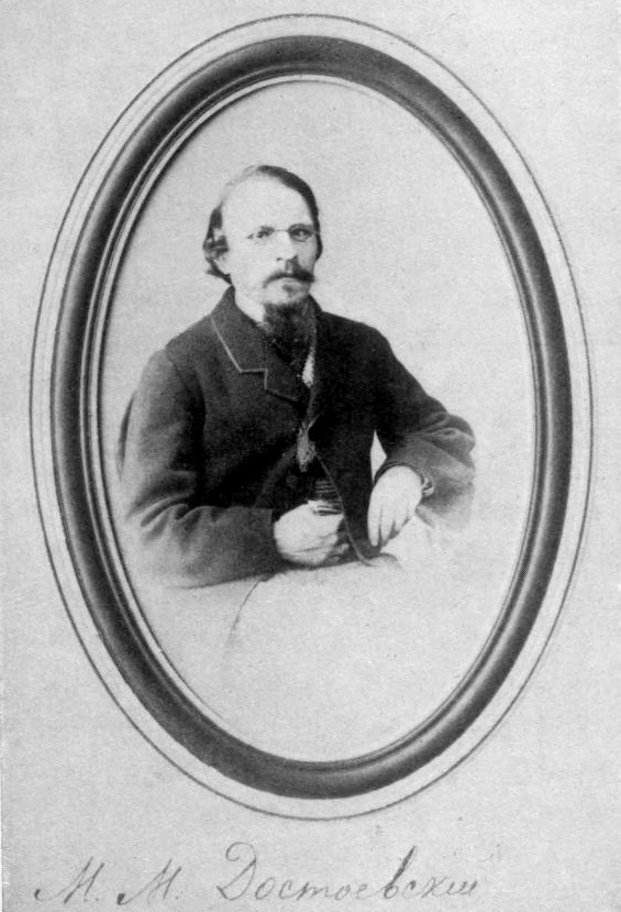 Mikhail Mikhailovich Dostoyevsky (1820—1864), brother of Fyodor Dostoyevsky.